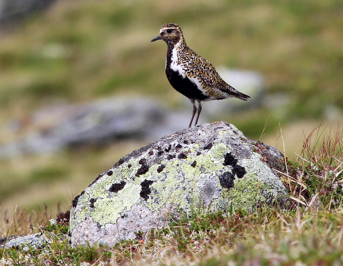 Goldregenpfeifer